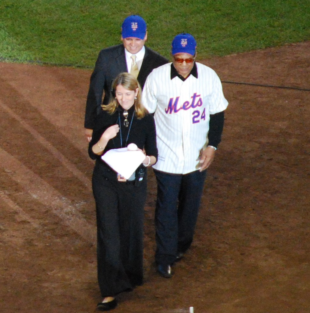 Willie Mays (right)